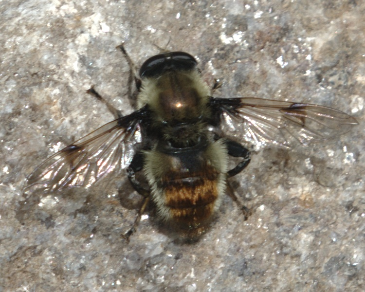 Male hover fly, Arctophila flagrans or now Sericomyia flagrans, Santa Fe Ski Basin, Santa Fe National Forest, New Mexico. Same individual as File:Arctophila flagrans male face.jpg. Thanks to Gerard Pennards at for ID.